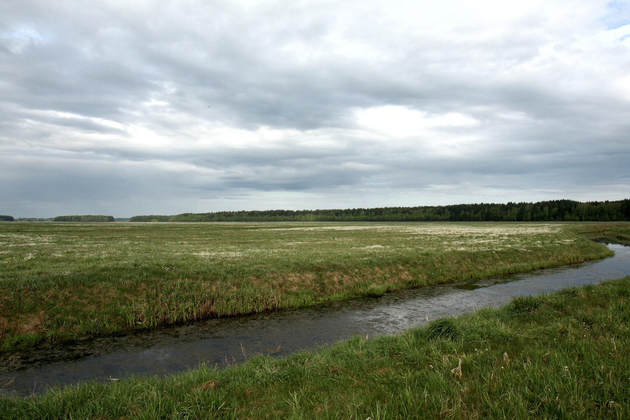 Landscape in Miadziel disctrict, Belarus